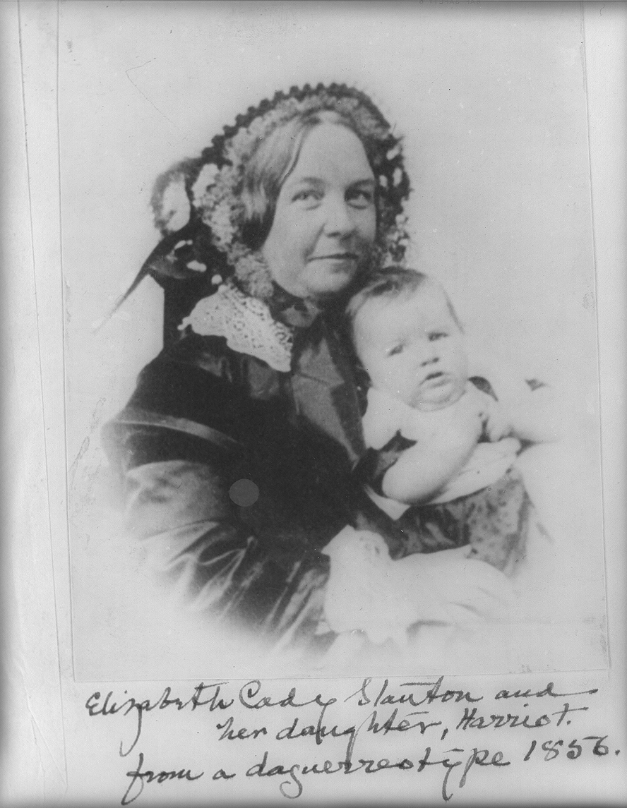 Elizabeth Cady Stanton holding her daughter Harriot, half-length portrait, facing right. (cropped)